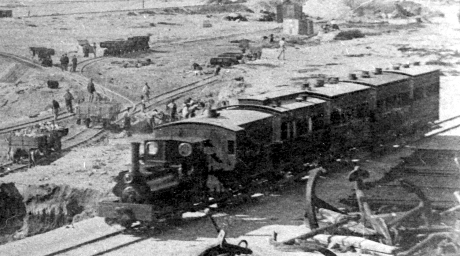 Believed to be Andrew Barclay no. 234 of 1881, later Port Elizabeth Harbour 0-4-0ST no. B, obtained second-hand from Despatch Brickmaking & Woolwashing Company, Port Elizabeth c. 1891.